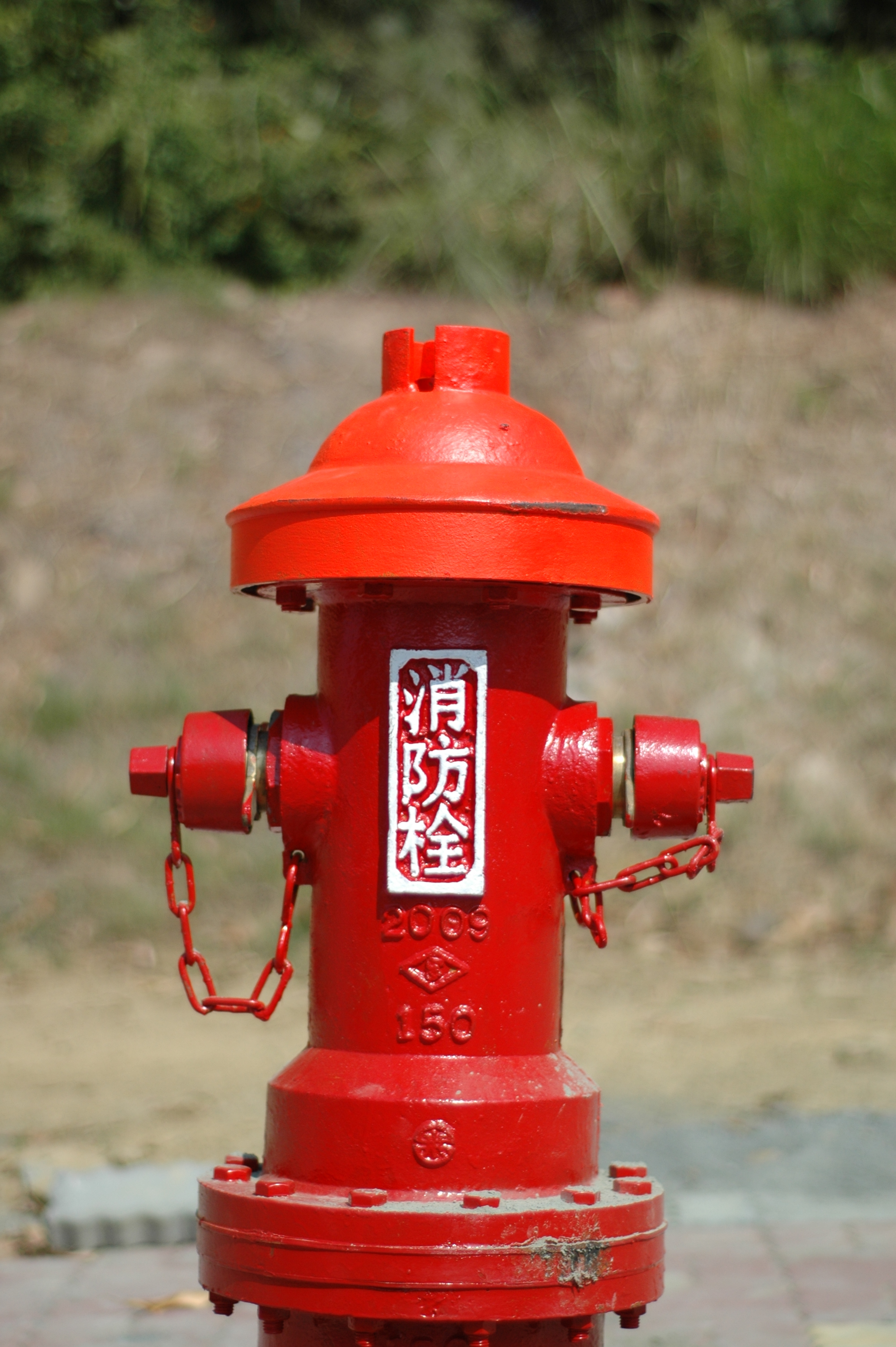 A newly installed fire hydrant located in Nanhua University.